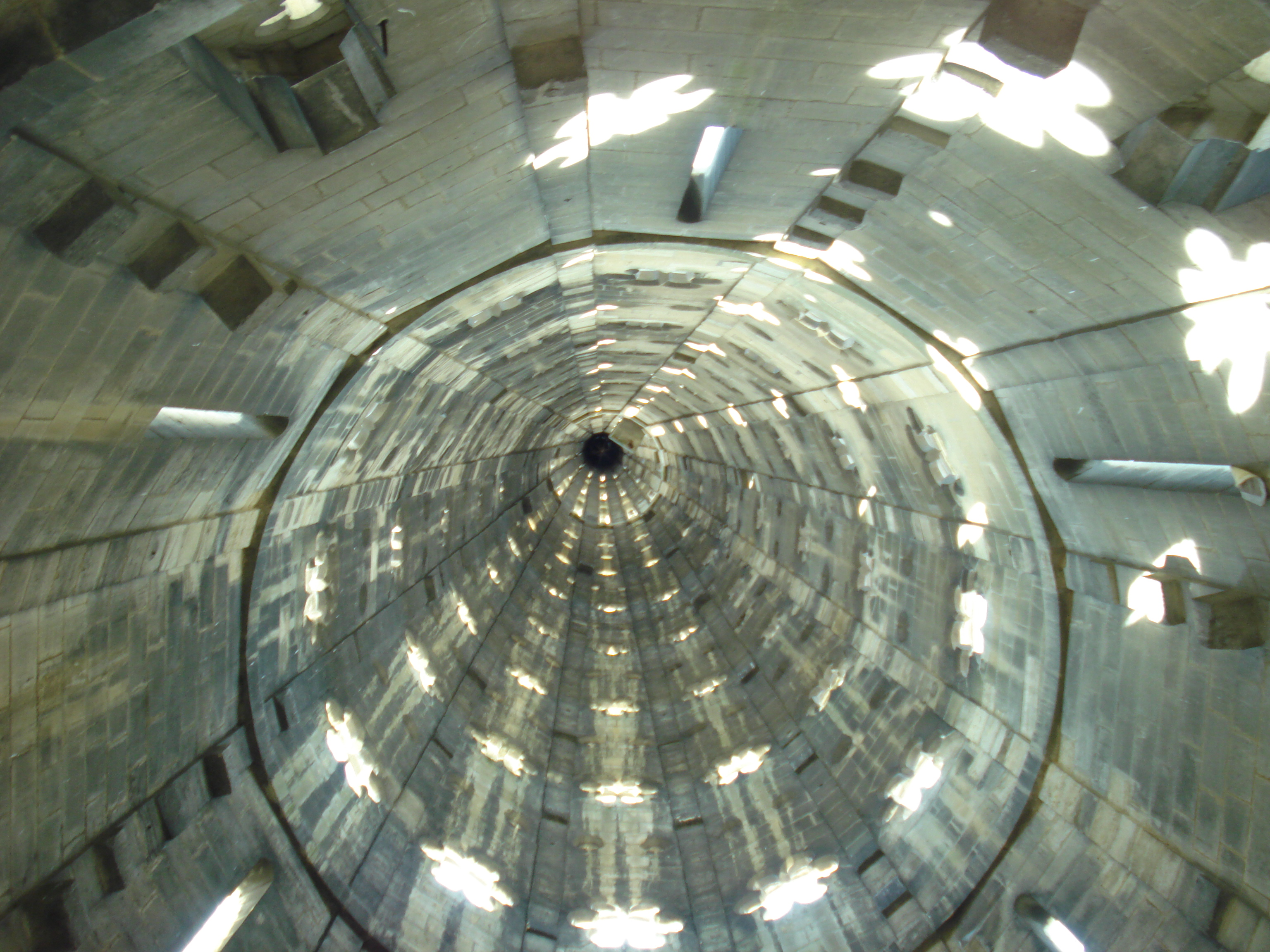 Bordeaux - July 2012